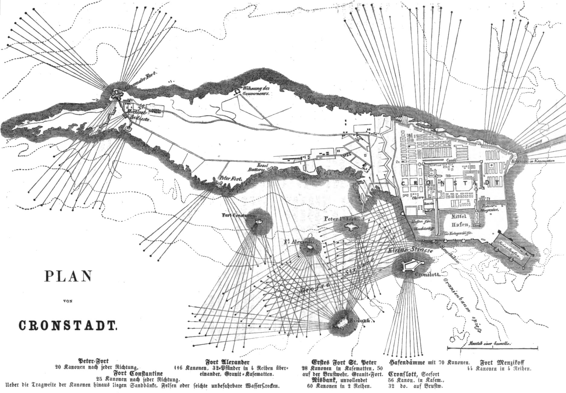 no caption